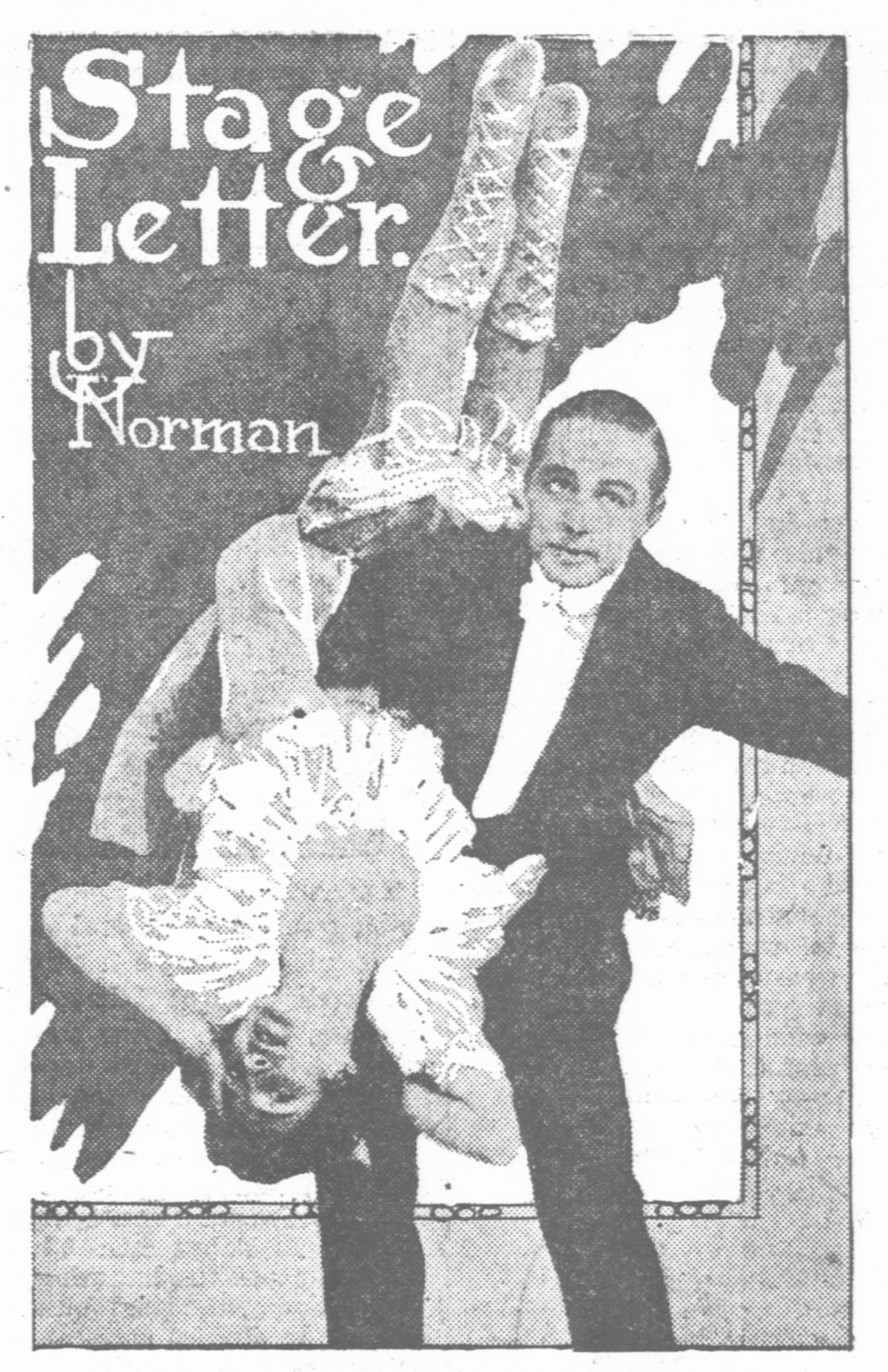 Dance partners and future spouses Evelyn Nesbit and Jack Clifford